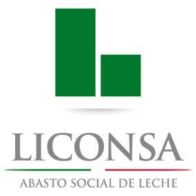 Liconsa, a mexican relief program depending on Secretariat of Social Development of Mexico (logo of 2012).